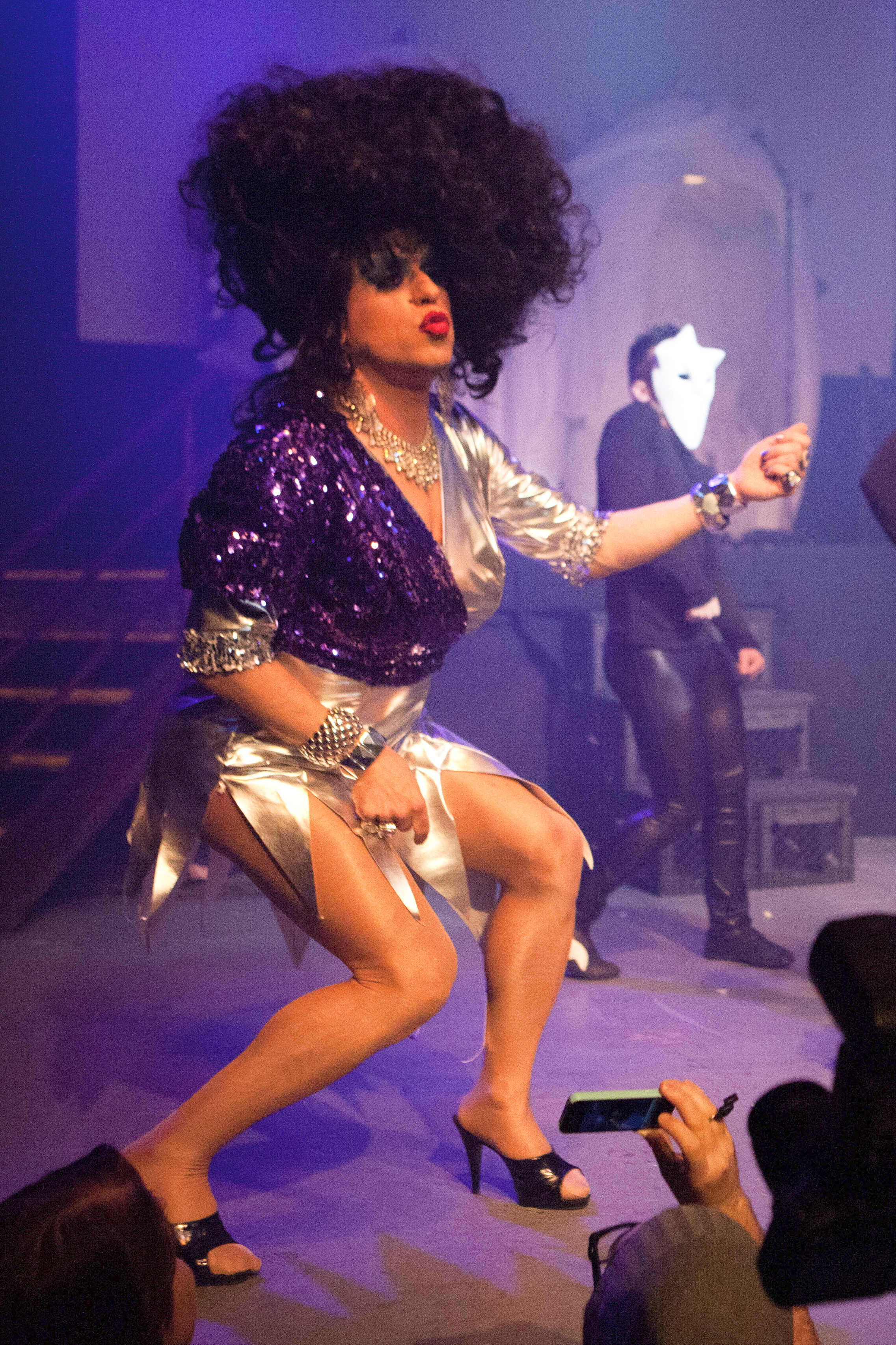 Heklina, a drag queen and entertainer, performs at DNA Lounge in San Francisco, CA, USA, on February 18, 2012.